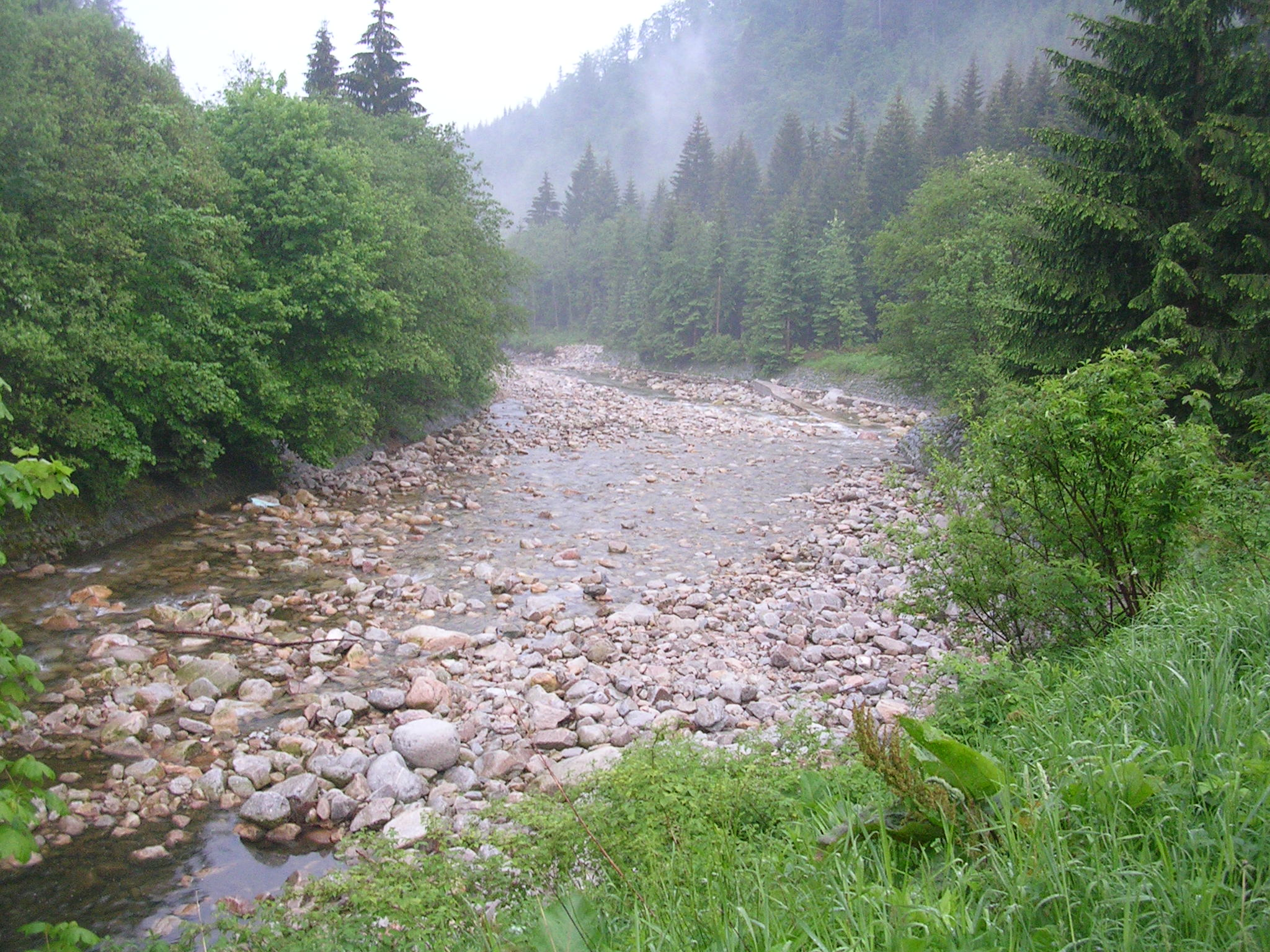 Giant Mountains. Confluence of Elbe and White Elbe. Lua error: language code ' ' is invalid.